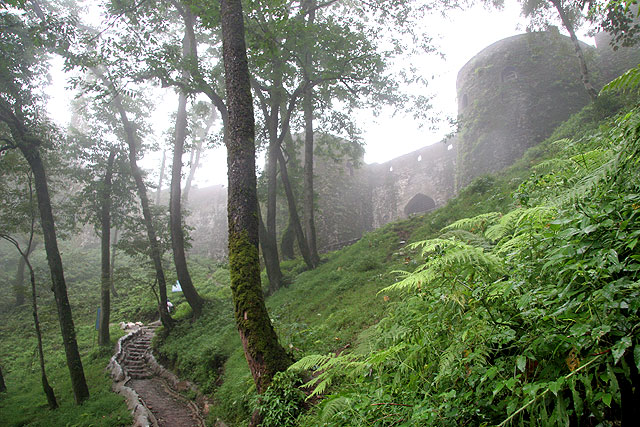 Gate of the Rudkhan Castle, Gilan, Iran.